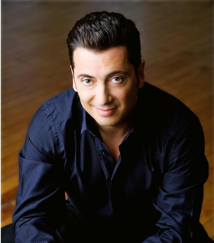 Photograph of Melih Abdulhayoglu, New Jersey, United States